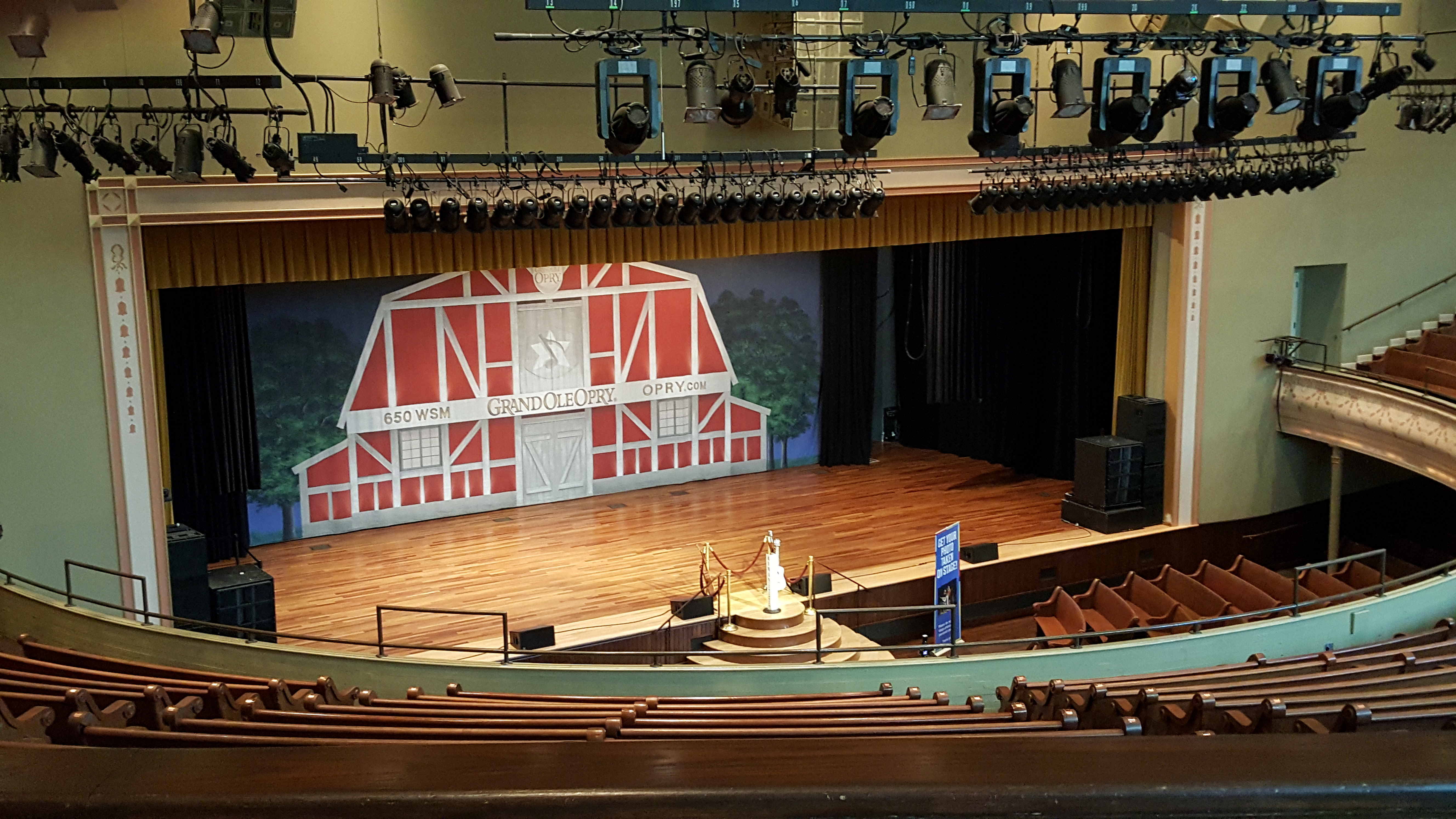 Ryman Auditorium stage as seen from the balcony.